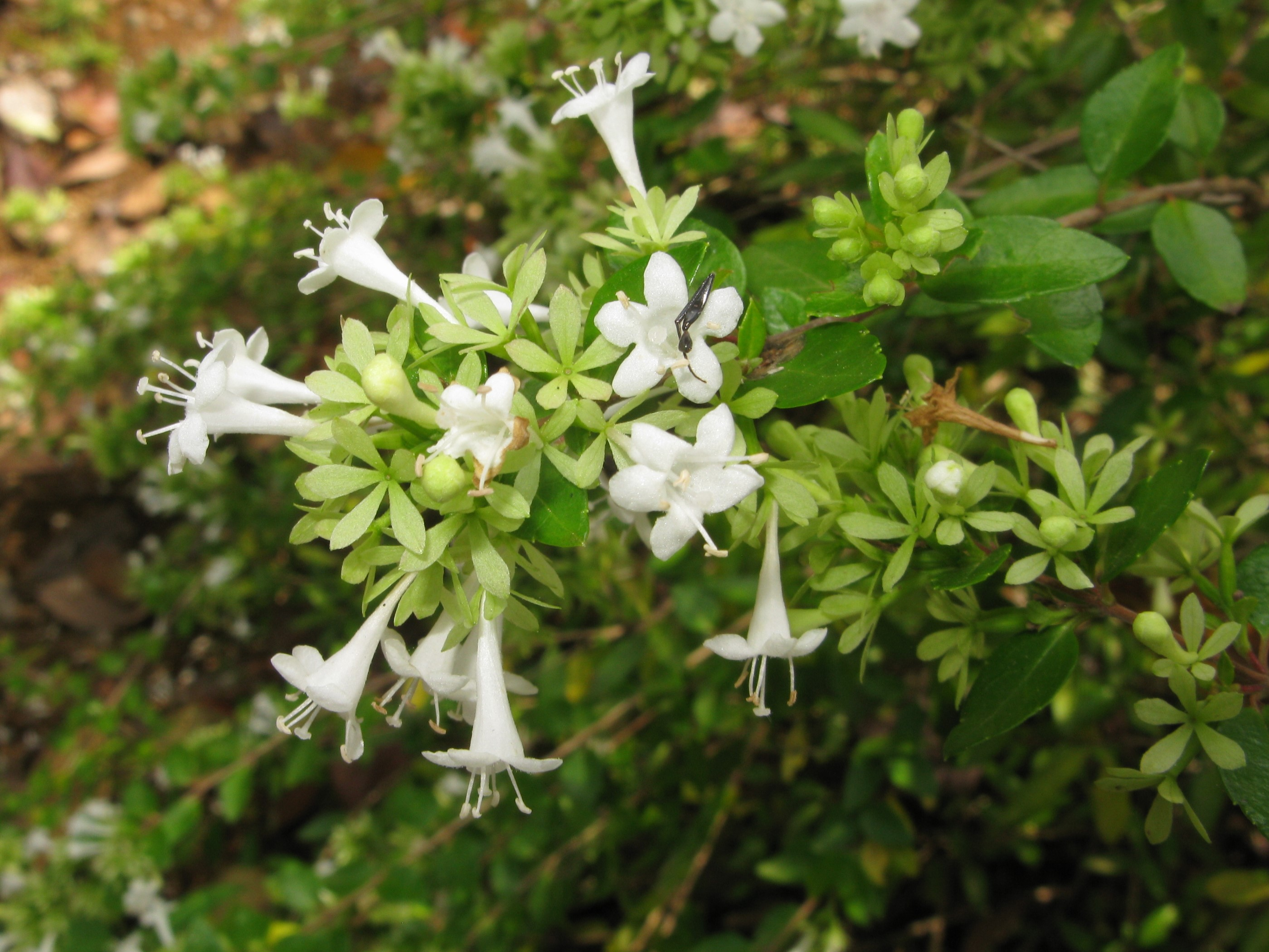 Abelia chinensis var. ionandra, Tsukuba Botanical Garden, Ibaraki pref., Japan